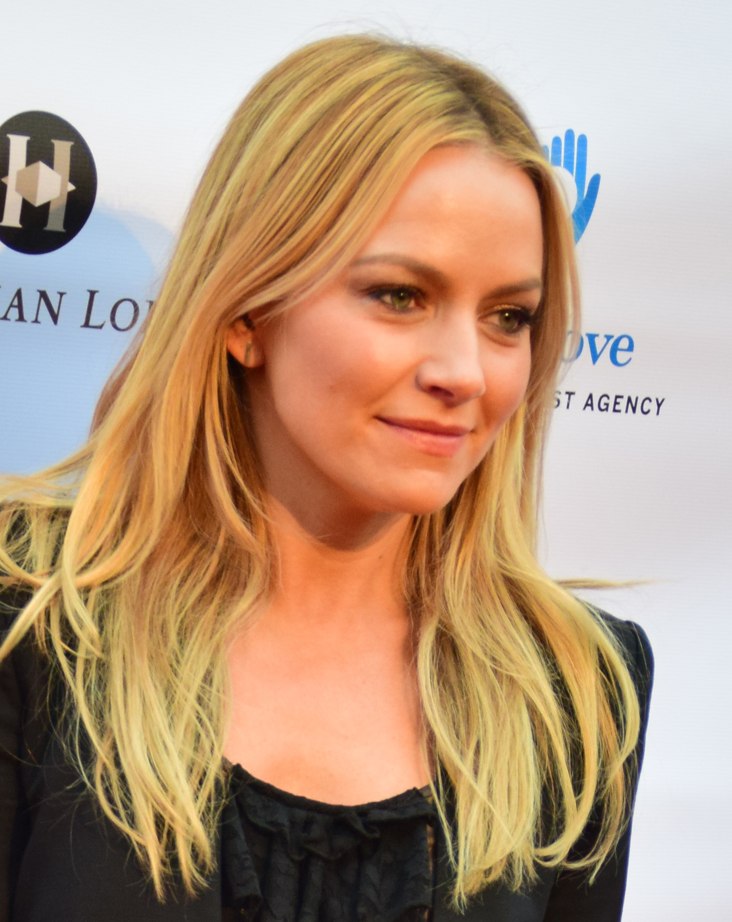 Actress Becki Newton at the 4th Annual Norma Jean Gala in March 2015